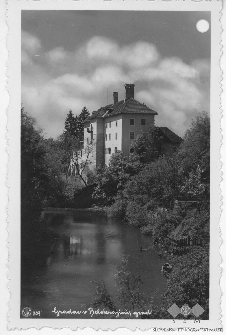 Postcard of Gradac Castle